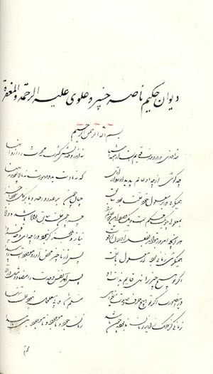 A manuscript of Divan of the Persian poet Nasir Khusraw, written in Shekasteh Nasta'liq style.